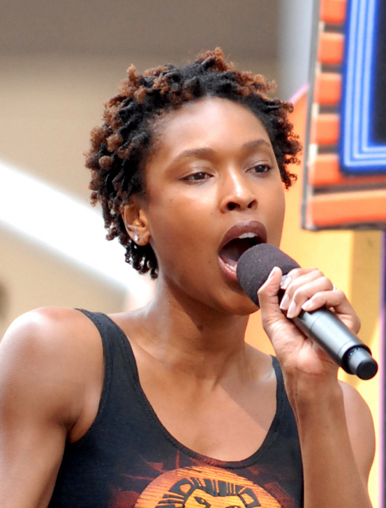 The Lion King cast member Kissy Simmons performs "Shadowland" at Broadway on Broadway, September 10th 2006.